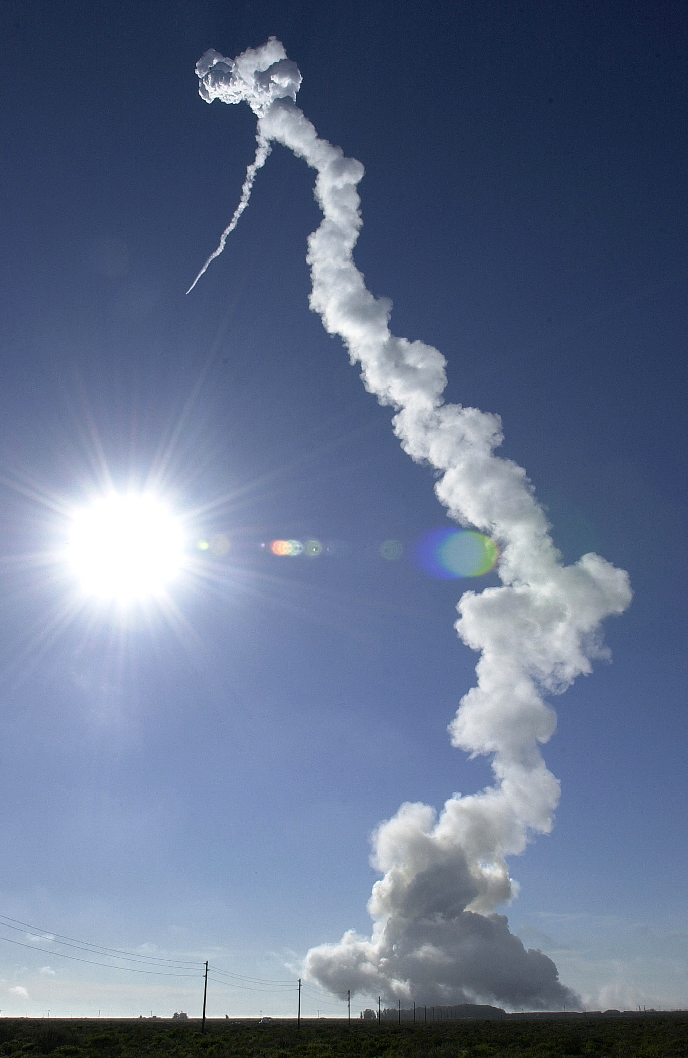 "Vandenberg successfully launches Delta II. A Delta II rocket carrying a National Reconnaissance Office satellite successfully launches Dec. 14 from Space Launch Complex-2 at Vandenberg Air Force Base, Calif."